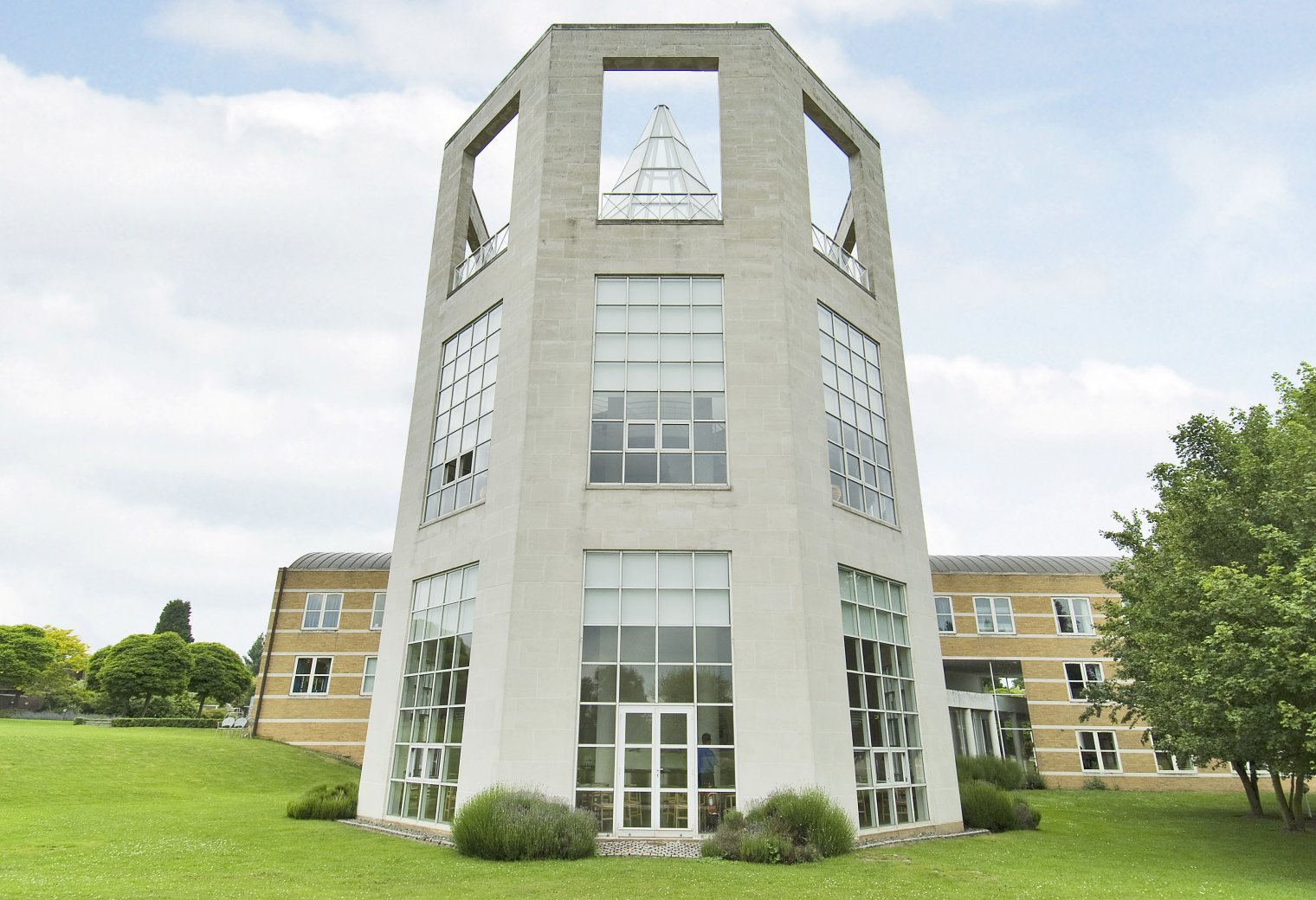 The Moller Centre